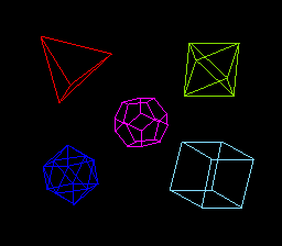 SNES Cx4 Chip Demo showing the Platonic solids in wireframe